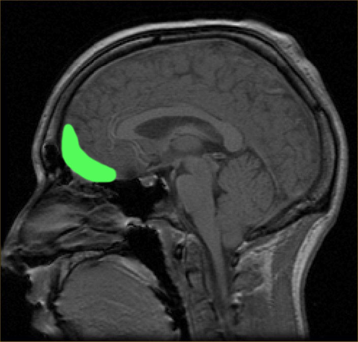 Original description: Author: Paul Wicks Source: My head! MRI Obtained in a 1.5T GE Scanner in 2003. Region highlighted = approximate location of the orbitofrontal cortex.